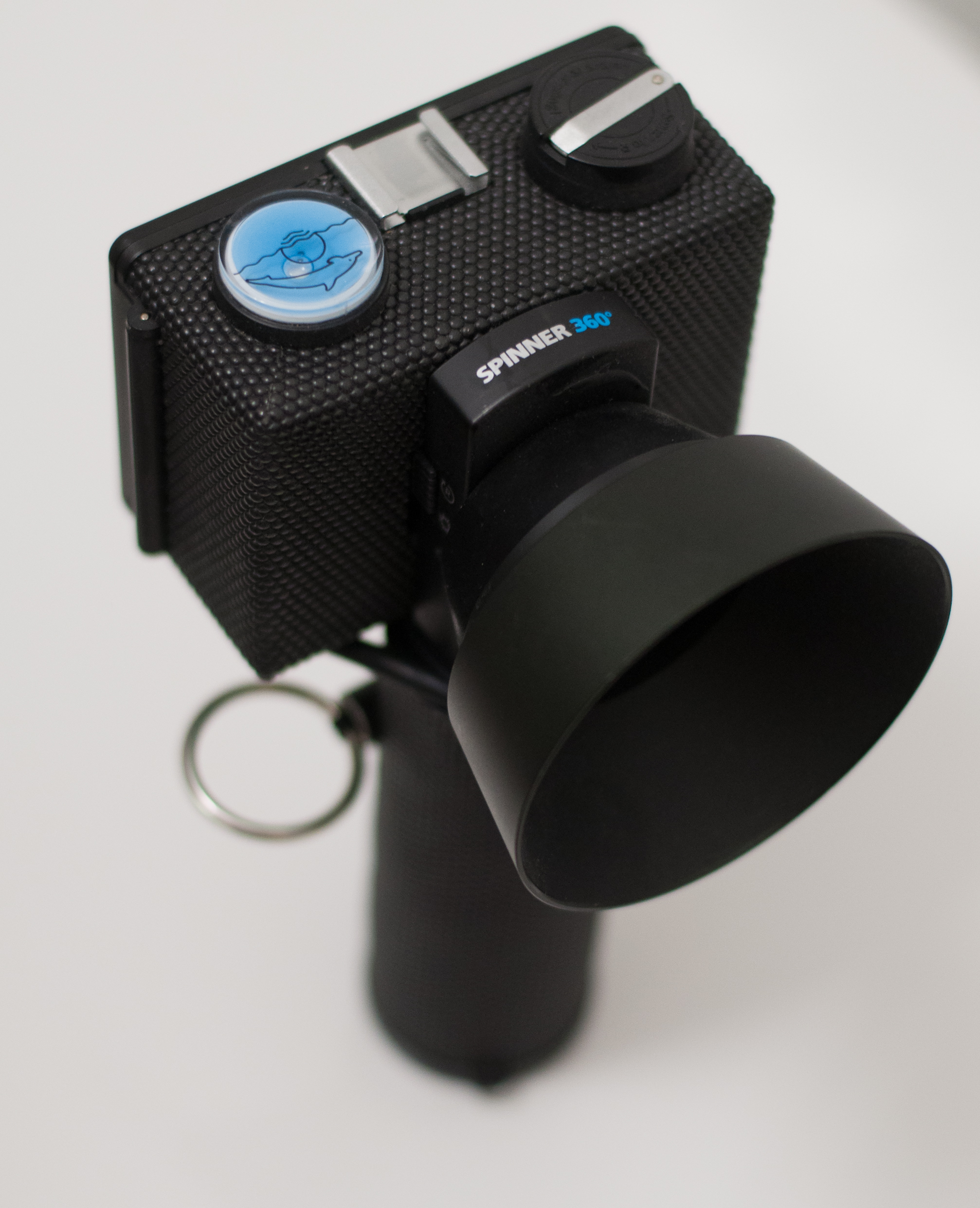 Tilted Top-View of a Lomography Spinner 360 camera.